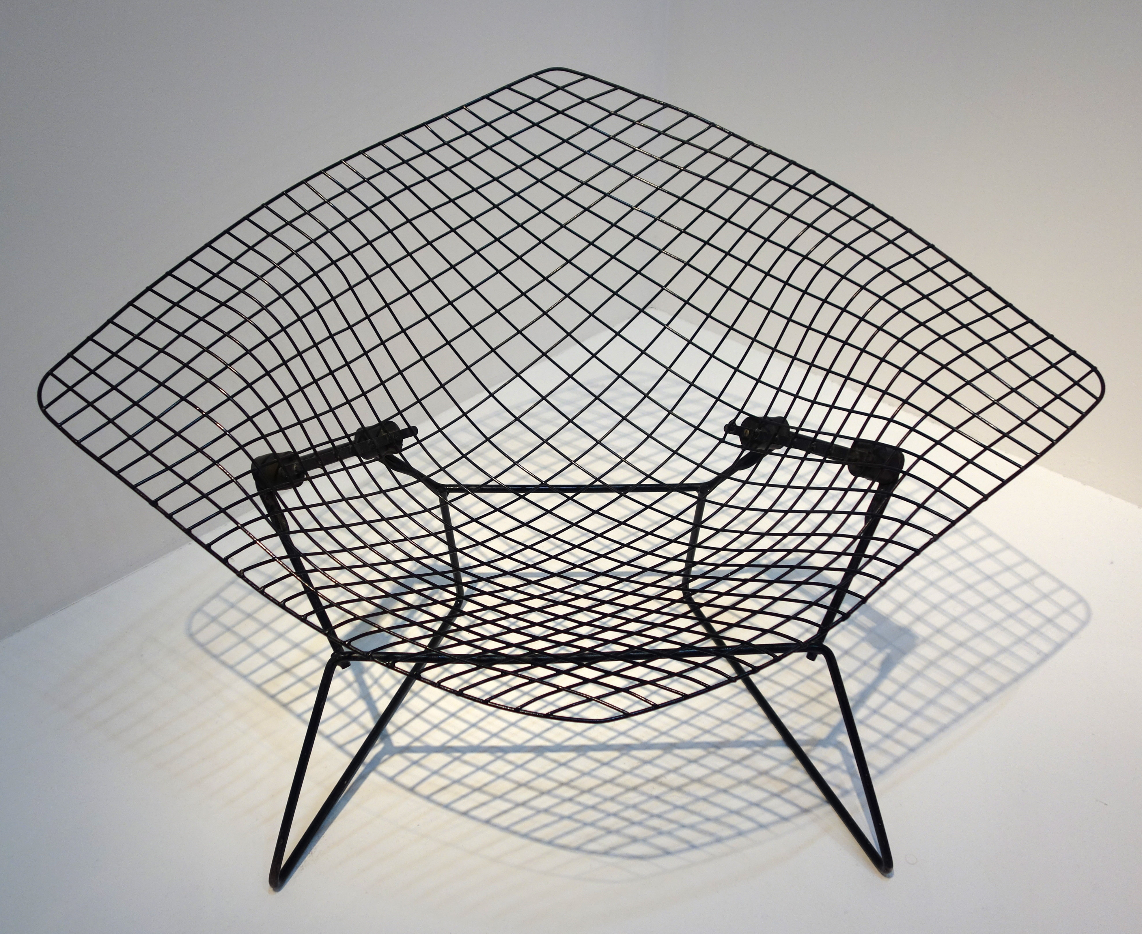 "Diamond Chair" (1952) de Harry Bertoia. Musée national d'art moderne, Paris, no. AM 1993-1-655.